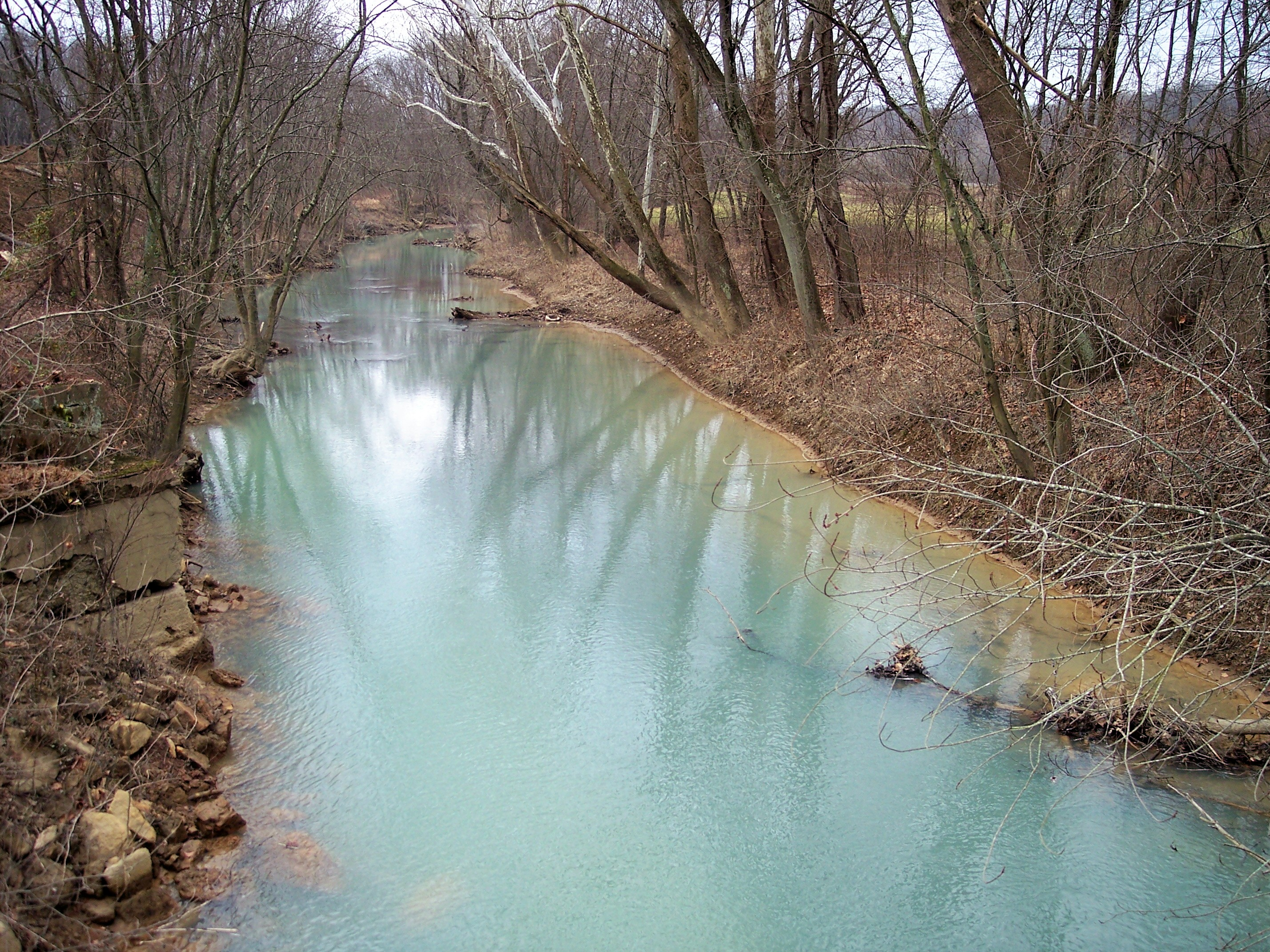 Monday Creek in Athens County near Nelsonville, Ohio, as viewed downstream from Elm Rock Road near its mouth